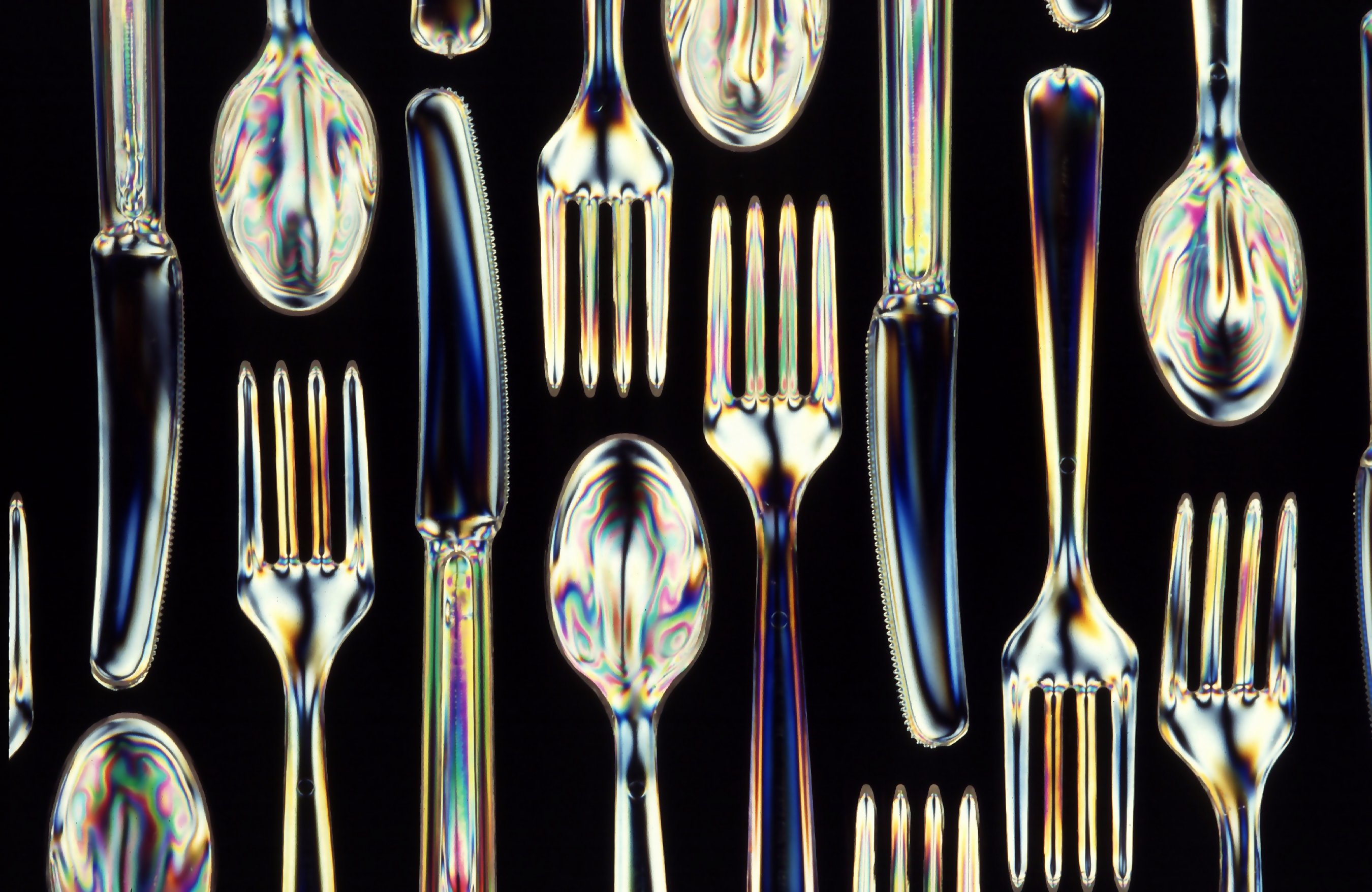 Knives, forks, and spoons made from a biodegradable starch-polyester material. The photo has been realized using the photoelasticity method, an experimental method which gets a fairly accurate picture of stress distribution even around abrupt discontinuities in a material. When a ray of plane polarised light is passed through a photoelastic material, it gets resolved along the two principal stress directions and each of these components experiences different refractive indices. The difference in the refractive indices leads to a relative phase retardation between the two component waves. The setup used to photograph this photo was probably composed of: A regular light source, with a quarter-wave plate installed to polarize the emerging light A regular photo camera, with a quarter-wave plate installed in front of the lens Light and camera being installed and oriented in the same direction, the two quarter-wave plates were turned with the polarizing axis in the same direction.